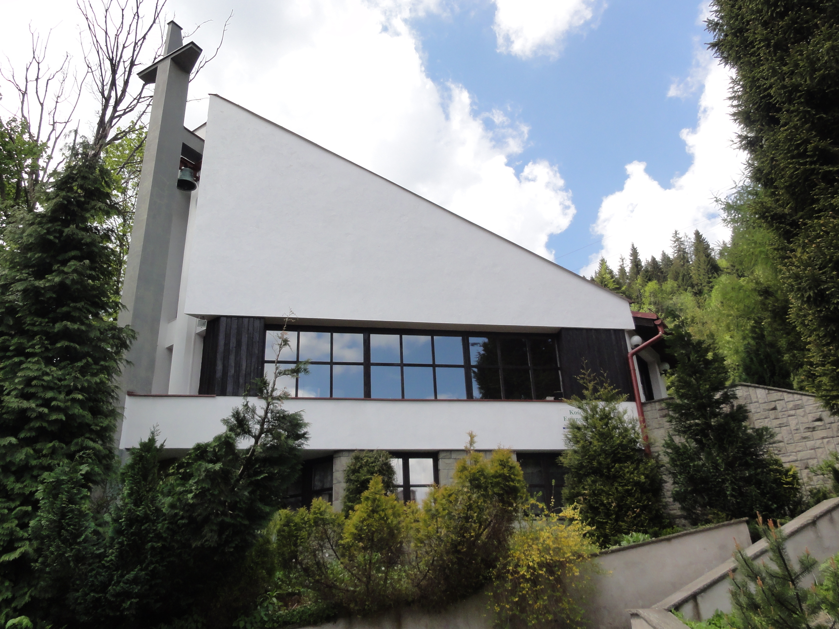 Lutheran church in Szczyrk-Salmopol